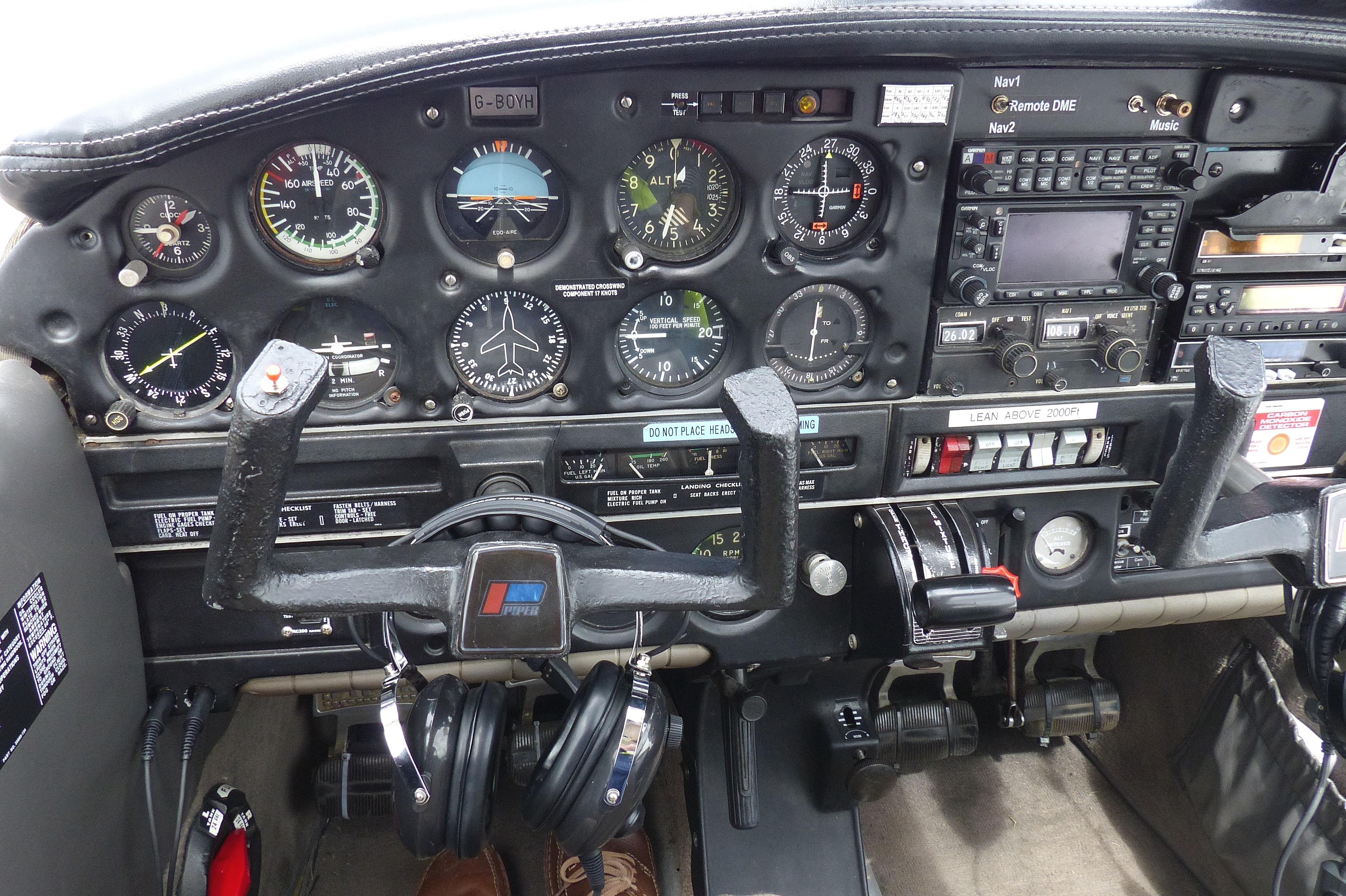 The cockpit of a Piper Aircraft Corporation PA-28-151 at Bristol Airport, England. Built 1977.